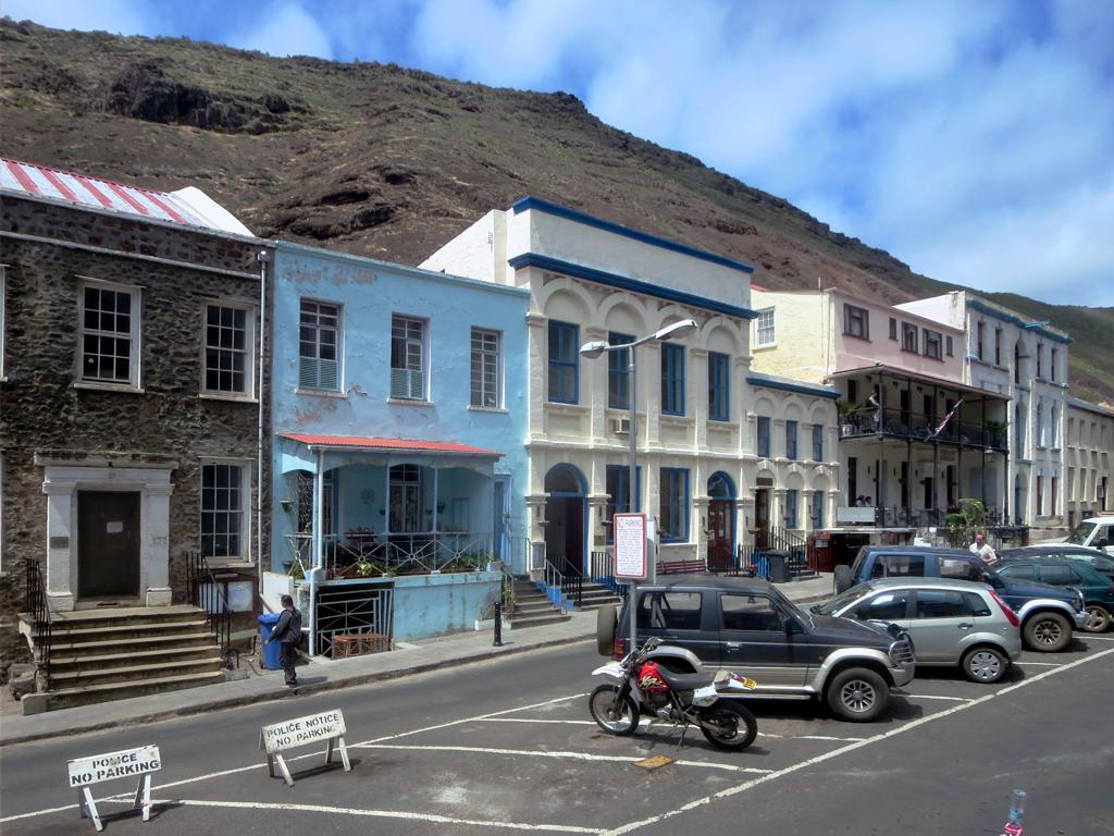 Main Street in Jamestown, St Helena Island, is one of the finest examples of Georgian urban architecture anywhere in the world. The mid-18th century building with the awning on the right is the Consulate Hotel.